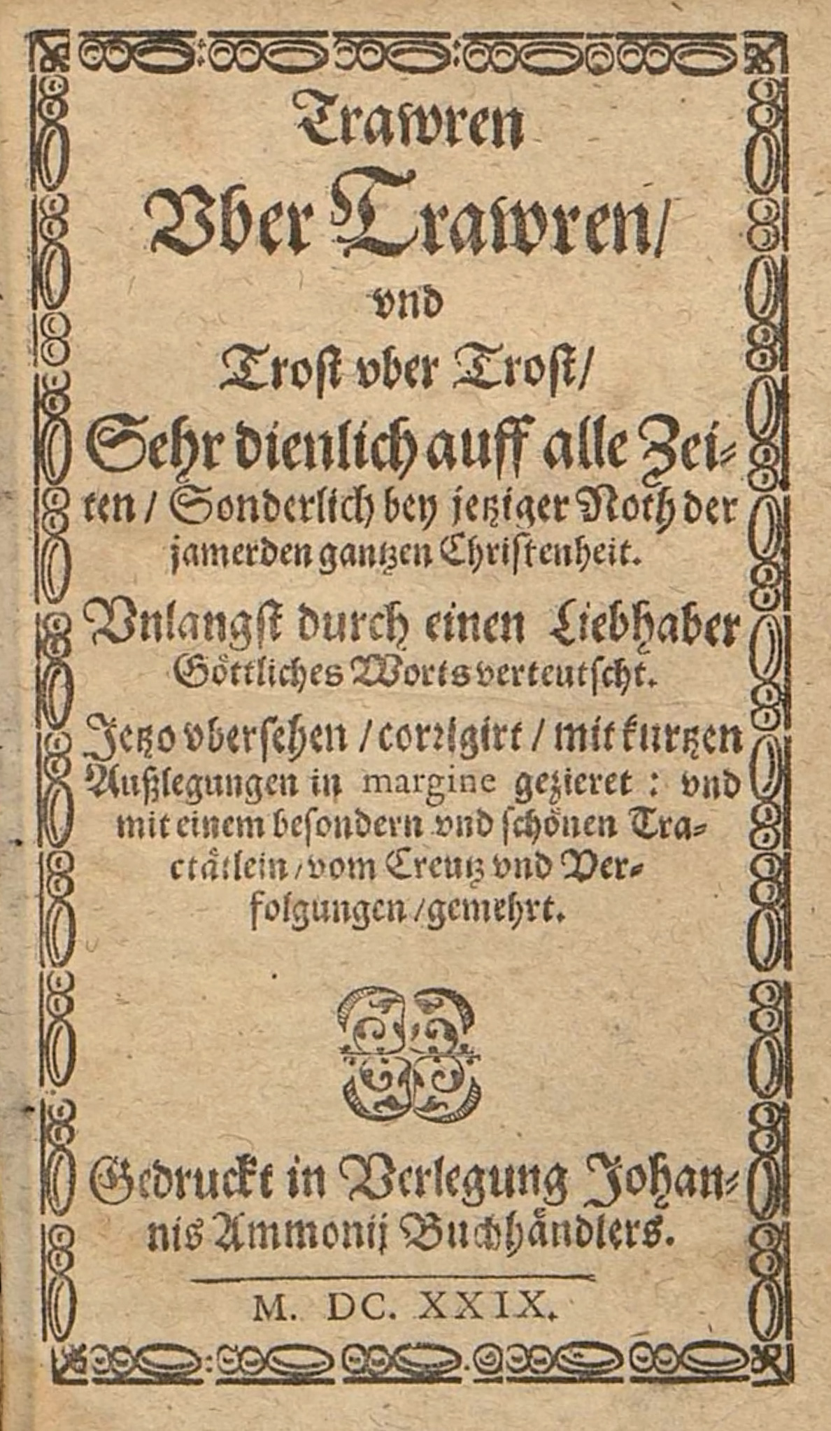 John Amos Comenius: Trauern über Trauern und Trost über Trost. Cover of the edition 1629, Frankfurt am Main.